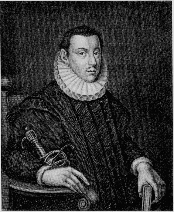 Portrait of James Crichton (1560-1582)